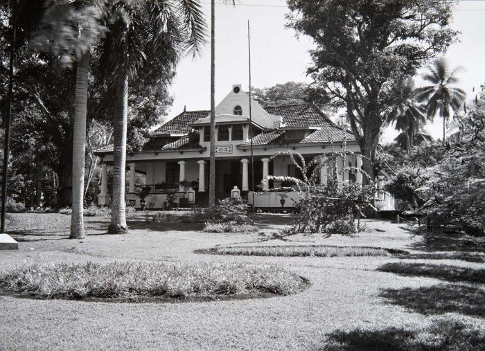 The house of the administrator at the Serpong rubber plantation